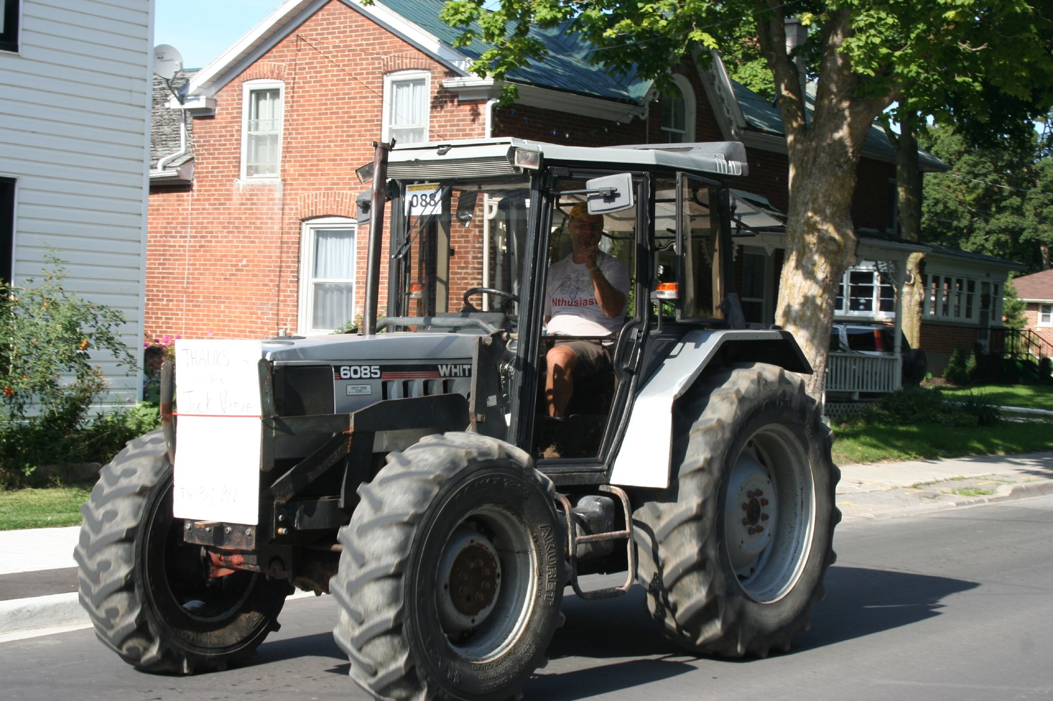 AGCO White 6085 tractor, Stirling Tractor Parade 2008, Canada